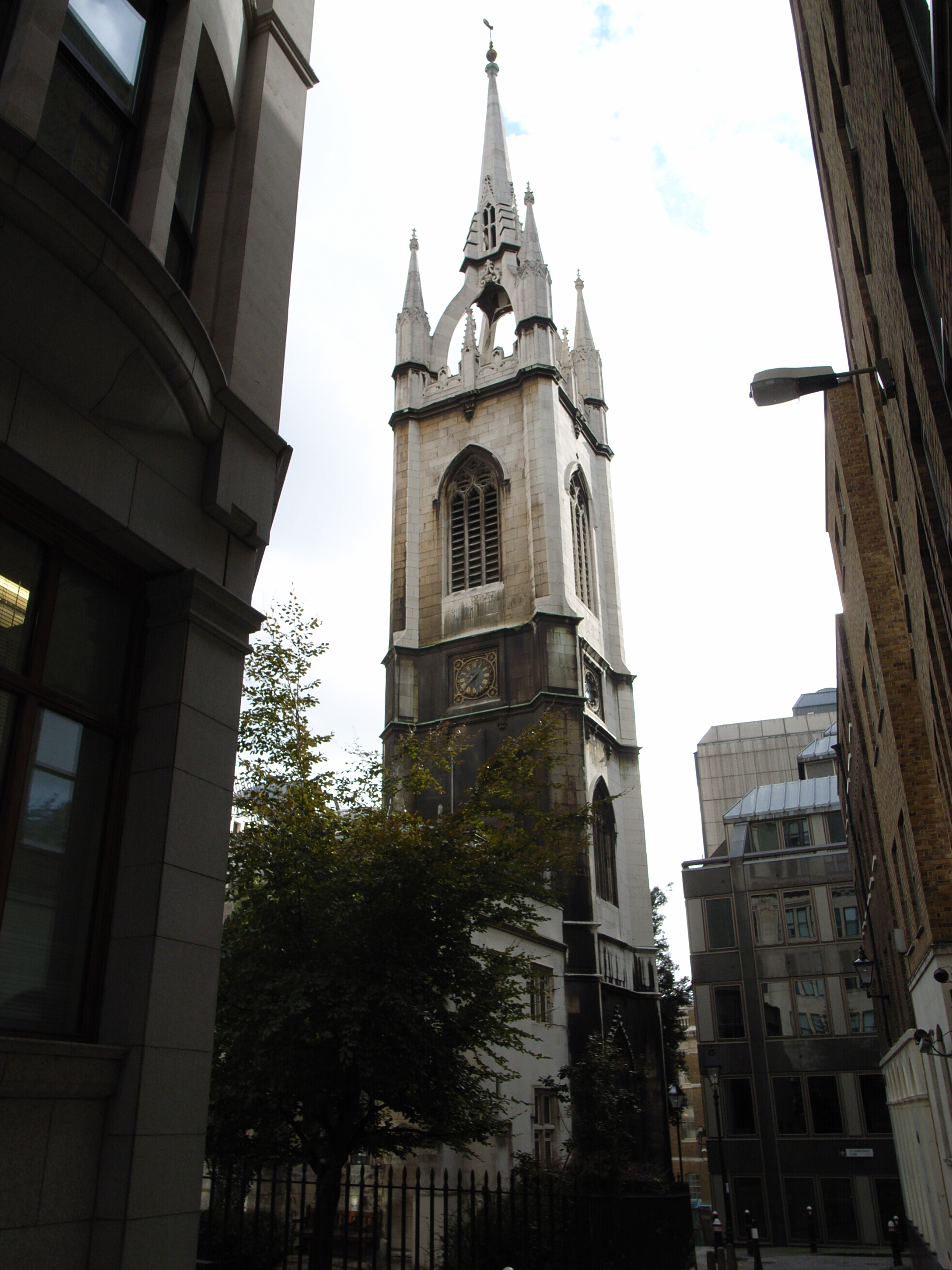 St Dunstan-in-the-East (1697), by Christopher Wren